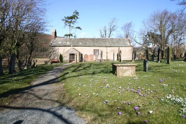 St John's Church Waberthwaite. Lies some 2km down a narrow, muddy cul-de-sac and is beautifully situated overlooking the estuary.